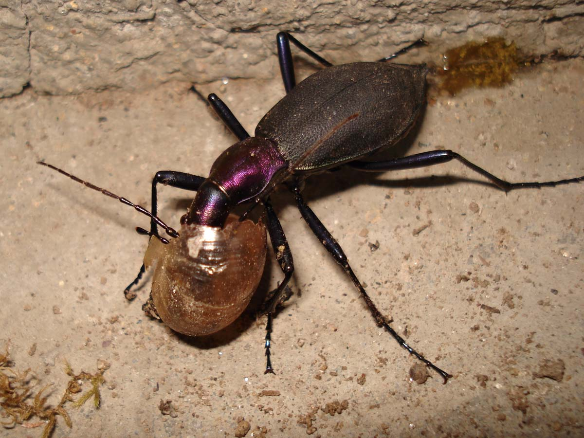 Photograph of Carabus blaptoides.(D. b. babaianus Ishikawa : identificated by a location and a color)